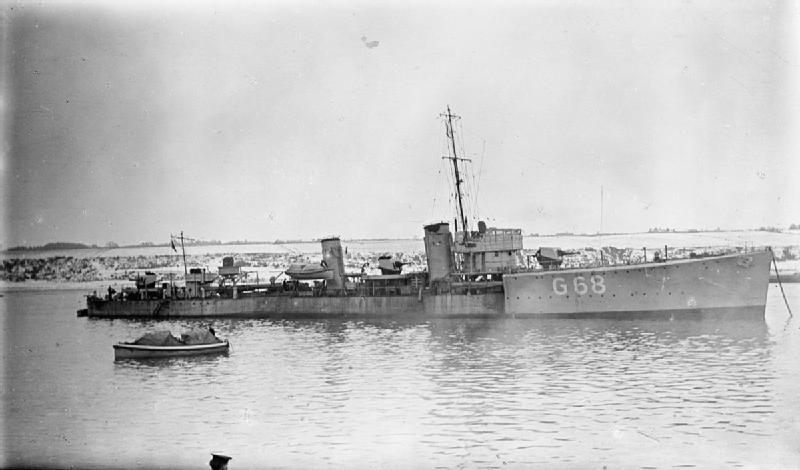 Photograph of British S class destroyer HMS Seafire.